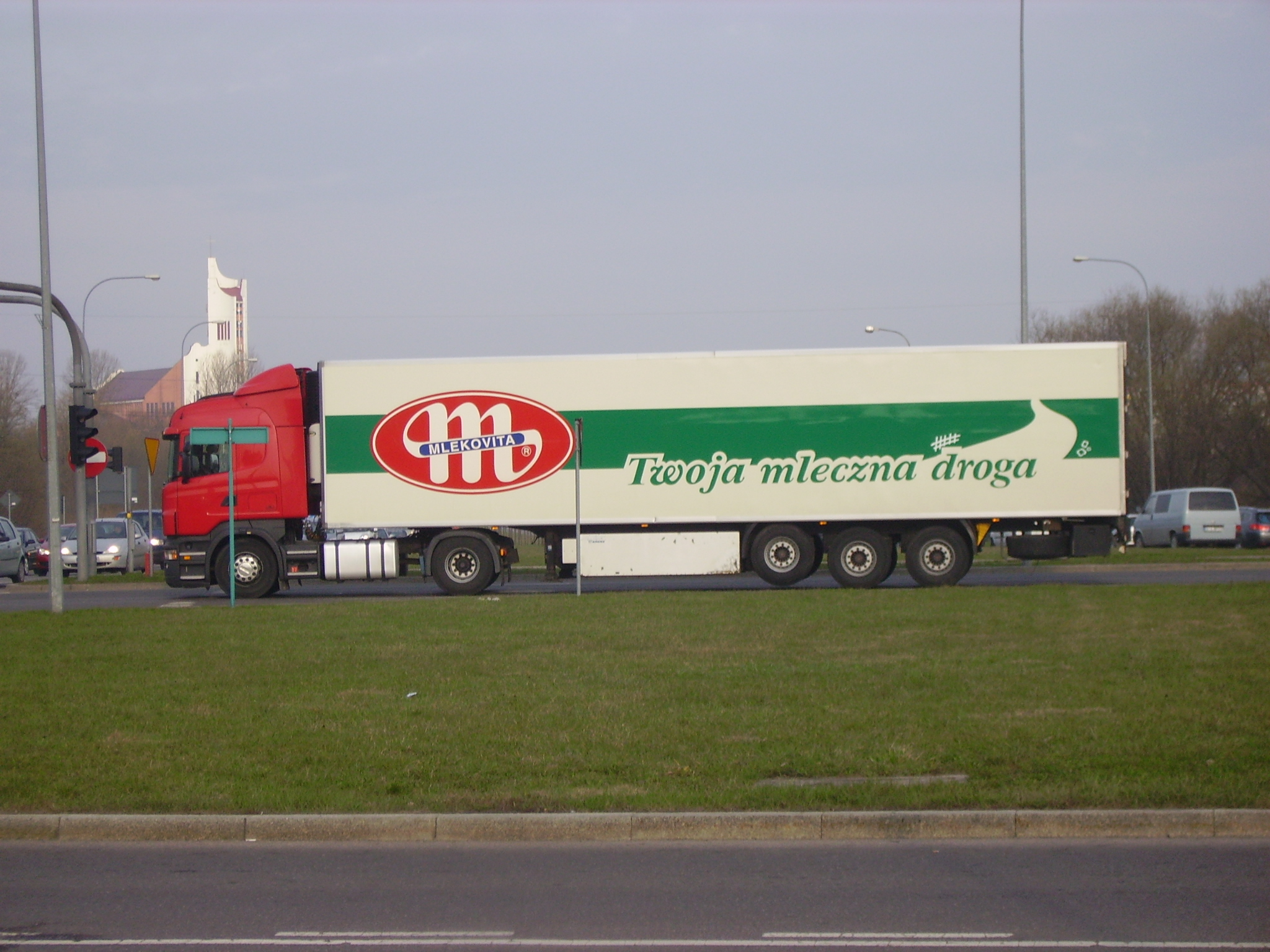 Truck of "Mlekovita" from Wysokie Mazowieckie at the Fieldorf "Nil" Roundabout in Białystok, Poland.